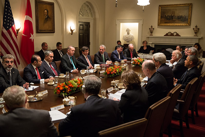 U.S. President Barack Obama and Turkish Prime Minister Recep Tayyip Erdoğan hold a bilateral meeting in the Cabinet Room of the White House.